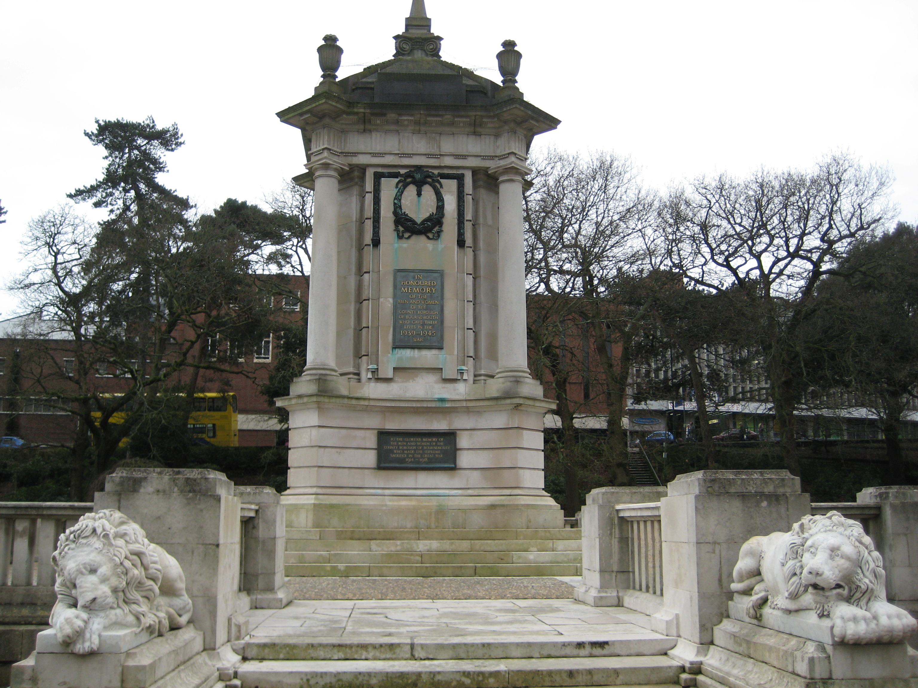 The Bournemouth War Memorial, built in 1921, is located in the Bourne gardens at Dorset, England. Own Work. Bournemouth Jan 2008.